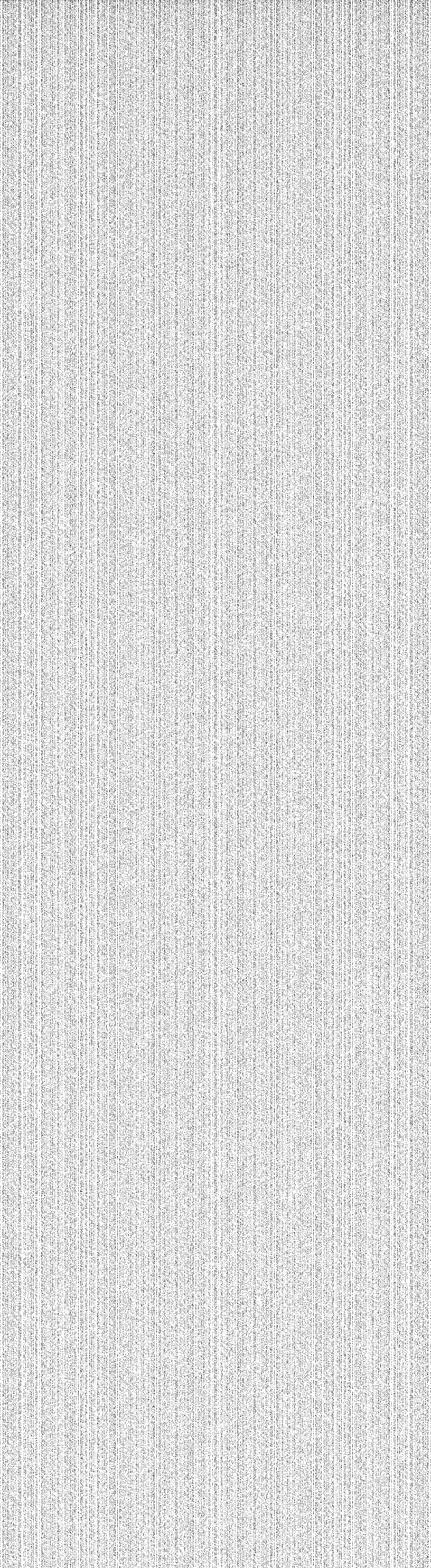 Prime numbers – Distribution Distribution of prime numbers up to 19# (9,699,690): black pixels are primes, white pixels are non-primes only odd numbers are shown, the only even prime is 2 numbers grow from left to right, then continue on the next line: top-left corner is 1 top-right corner is 11# (2310) − 1 bottom-right corner is 19# (9 699 690) − 1